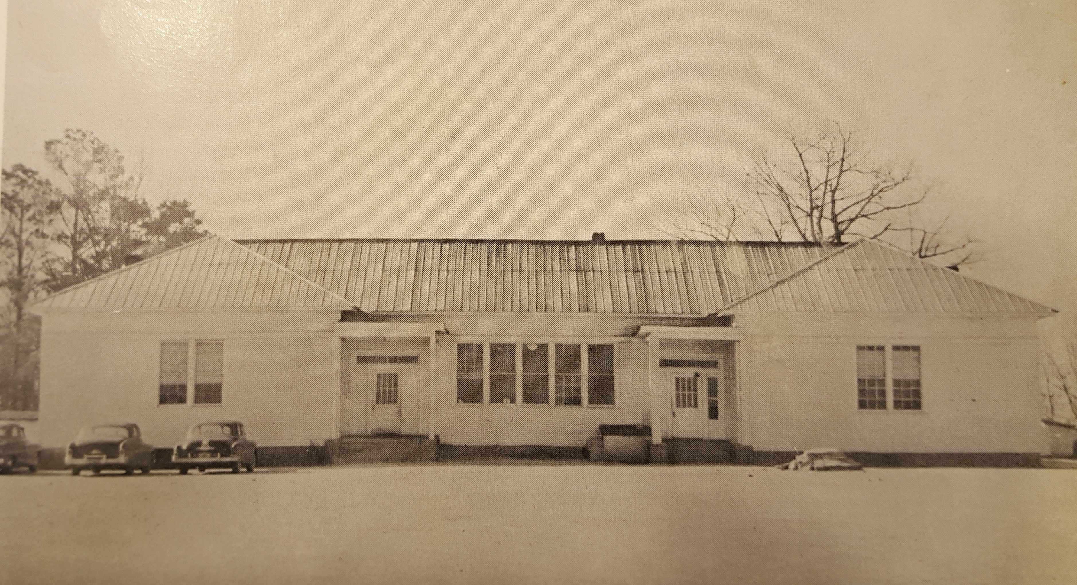 Taken from the 1952 yearbook